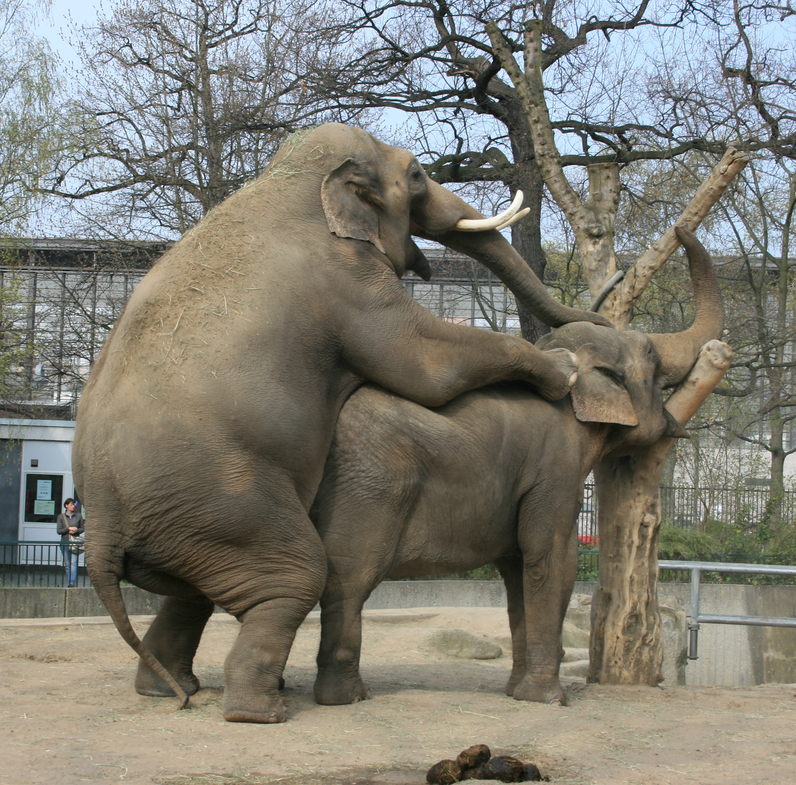 Two elephants in the Berlin Zoological Garden having sex.